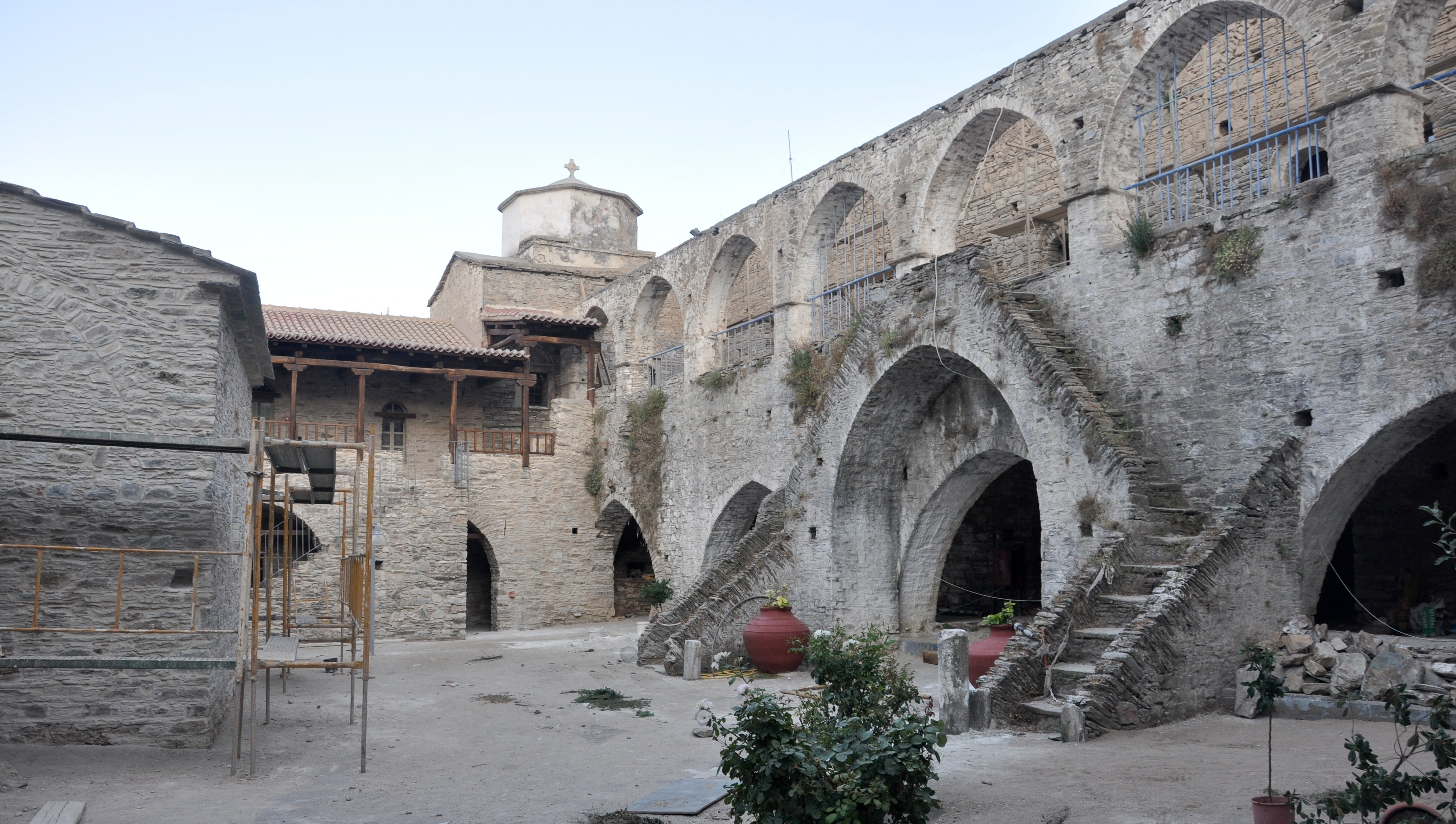 Vronta monastery inner courtyard, Samos, Greece